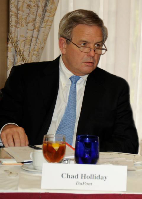 Chad Holliday at the Council on Competitiveness 2007 annual meeting.jpg